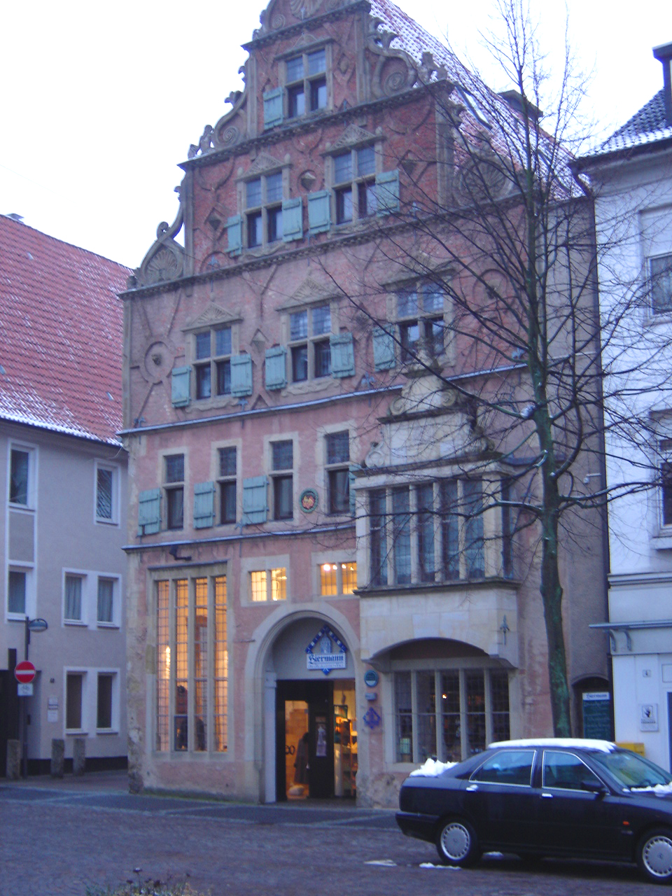 House built in 1560 in town of Herford, District of Herford, North Rhine-Westphalia, Germany.